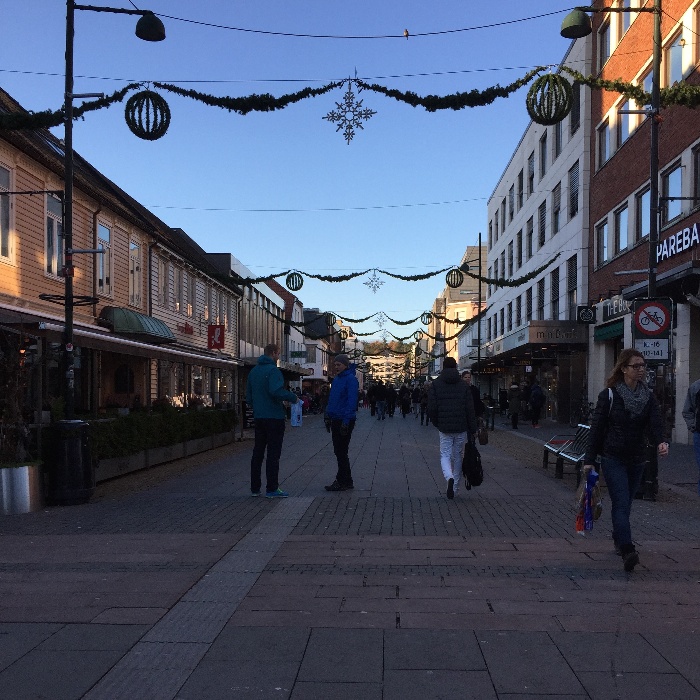 Christmas in Kristiansand